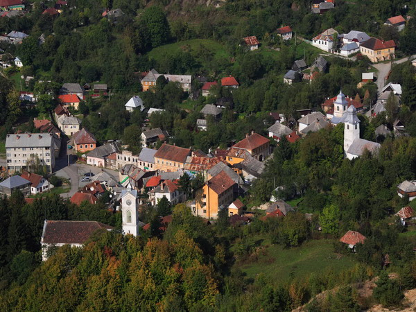 Roşia Montană, in the Judeţul Alba, Romania